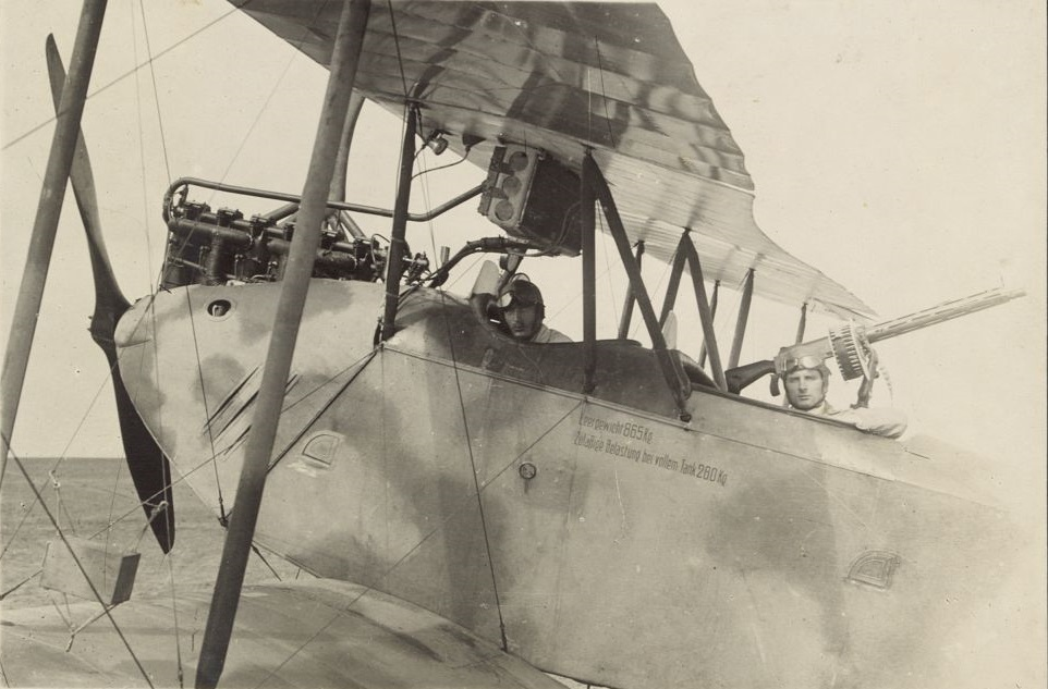 Gerhard Felmy in his AEG C.IV